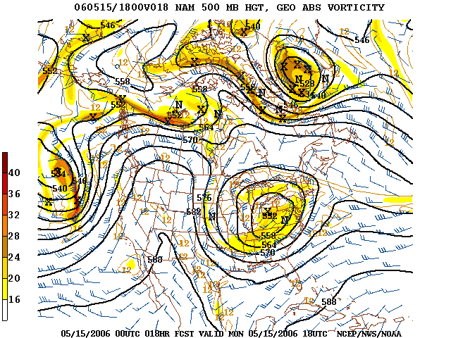 500 mb geopotential height forecast by the United States numerical weather prediction model NAM. Also an example of an Omega Block.